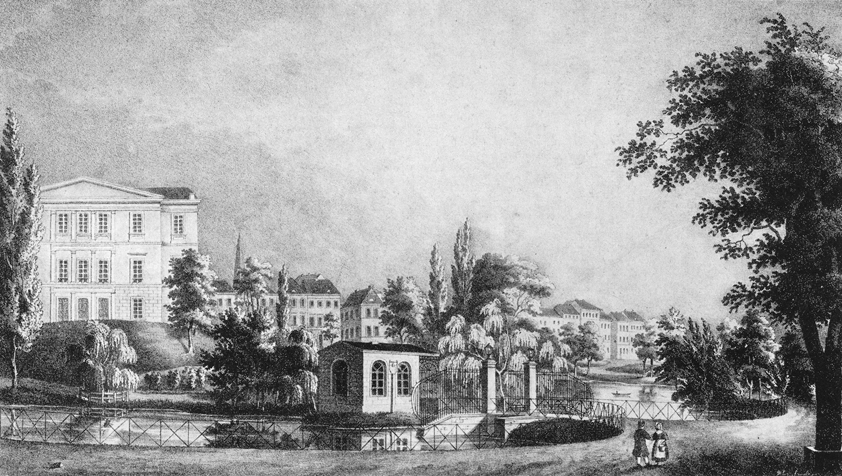 Lithography by A. von Lowtzow showing the Wallanlagen in Bremen, Germany. View from the Contrescarpe-side of the park, in the middle the Bischofstor (“bishop’s gate”), in the background the former Stadttheater (“city theater”).